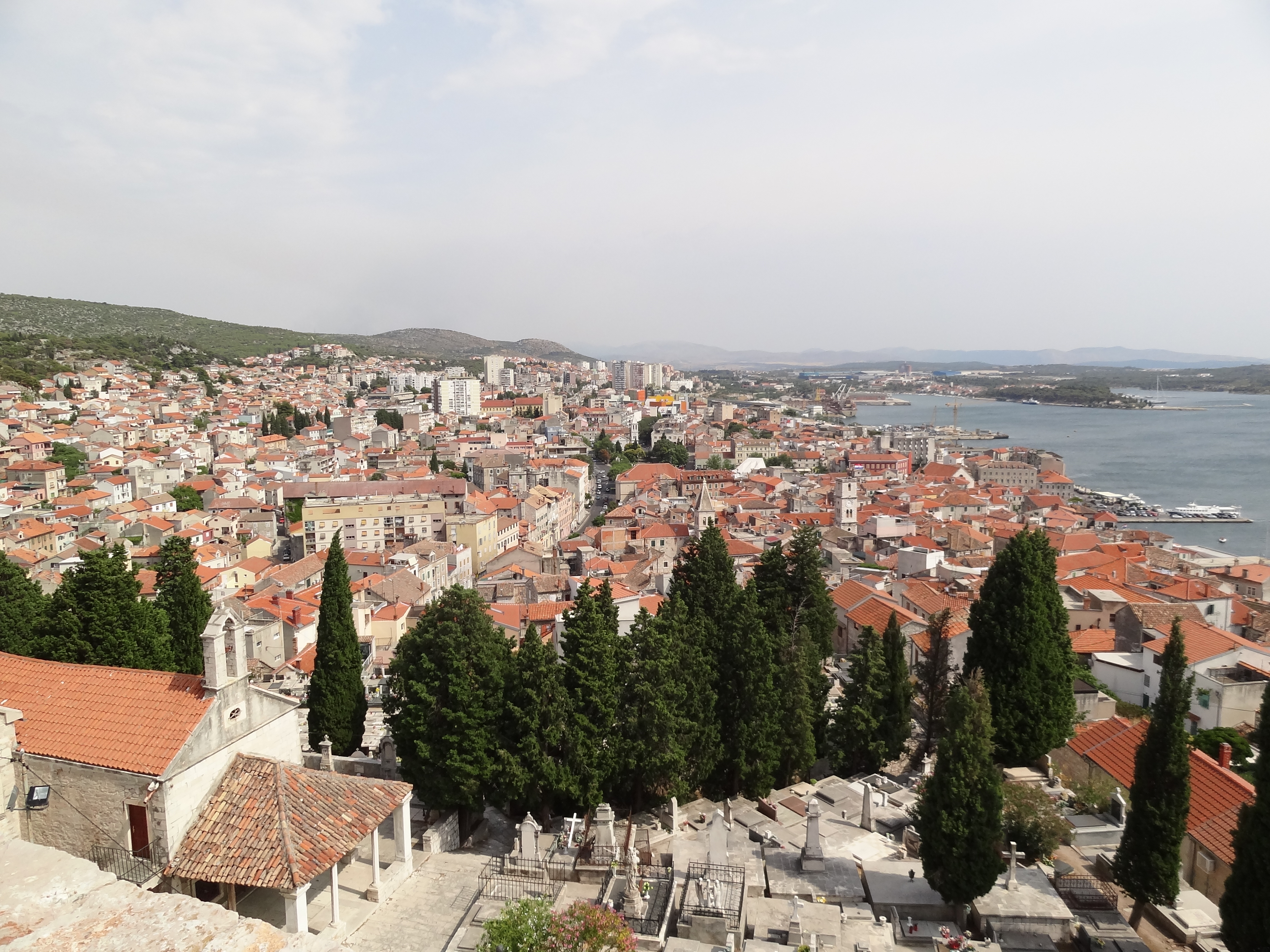 Šibenik panoramic view from fortress